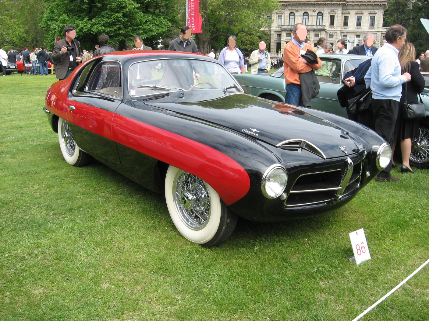 Subject:Pegaso Z-102 "Thrill", coachbulding by Touring Date:April 27th, 2008 Event:Concorso d’Eleganza”Villa d’Este” 2008 Place/Country: Cernobbio (CO), Italy I release all rights in the public domain.